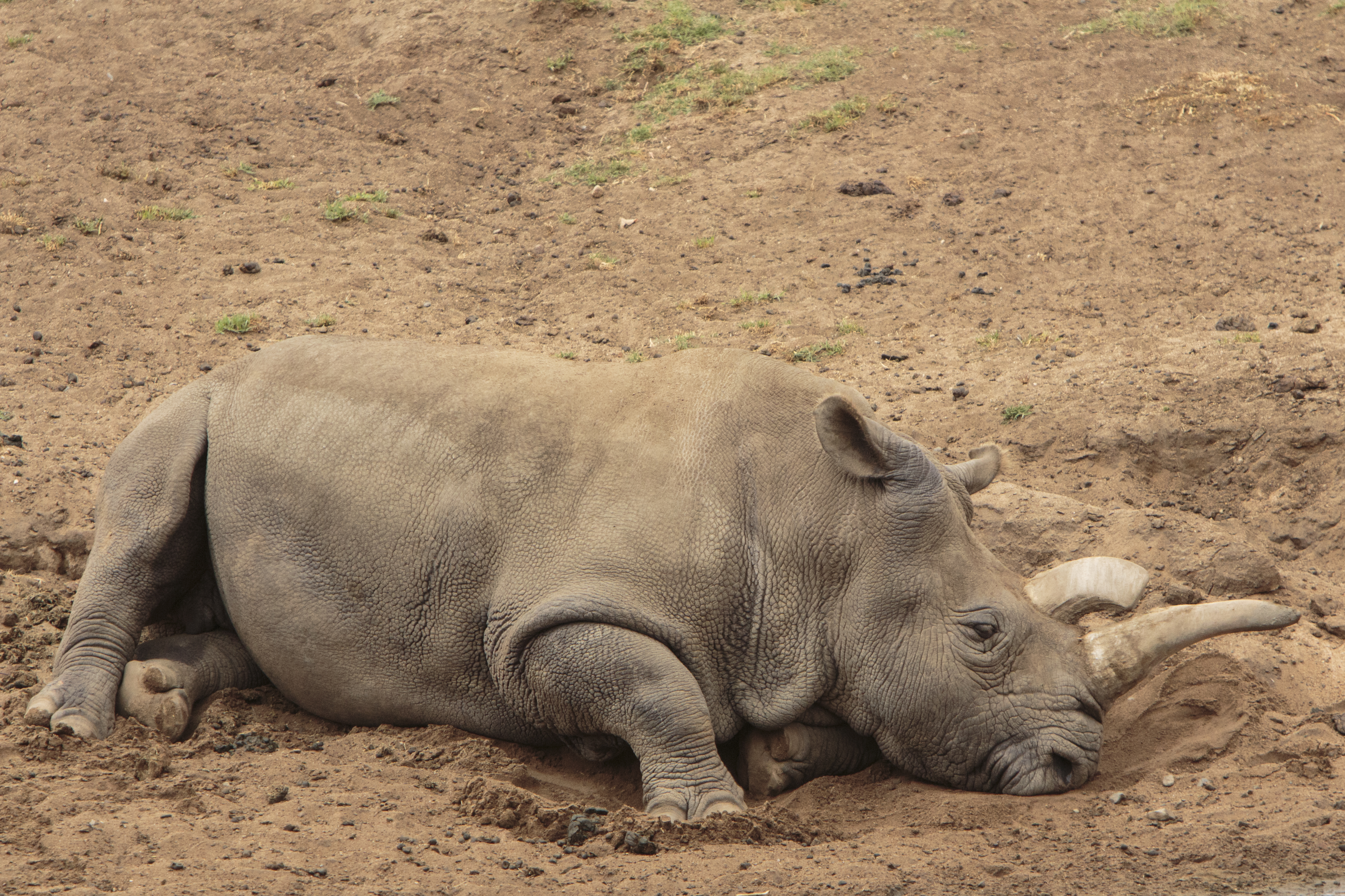 This is Nola, a female northern white rhinoceros at the San Diego Zoo Safari Park in San Diego, California. She is one of only five northern white rhinos left in the world and the only one left in the U.S as of April 2015. She is too old to breed and there are also no other surviving members of her species that are capable of breeding. Thus, her species, is in effect, extinct.